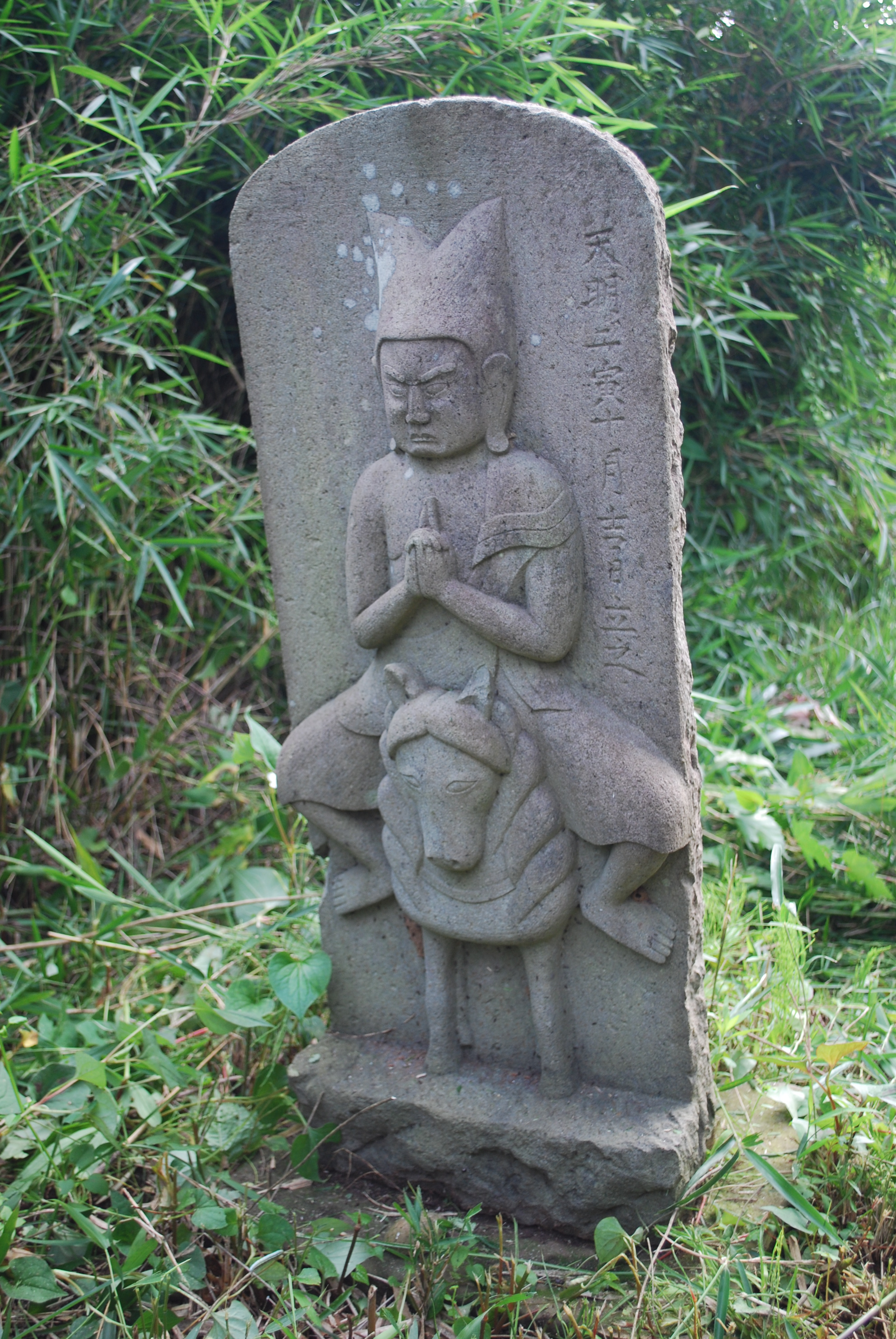 Umanori-Bato-kan-non,katori-city,Japan Hayagriva, known as Bato Kannon in Japan